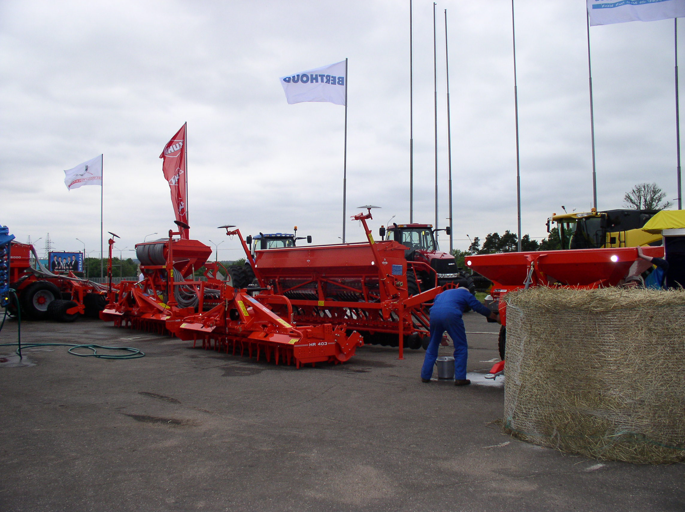 Kuhn power harrows (model HR 403 in the centre of the image) and Kuhn seed drills on display at the Agriculture Expo in Minsk, Belarus.